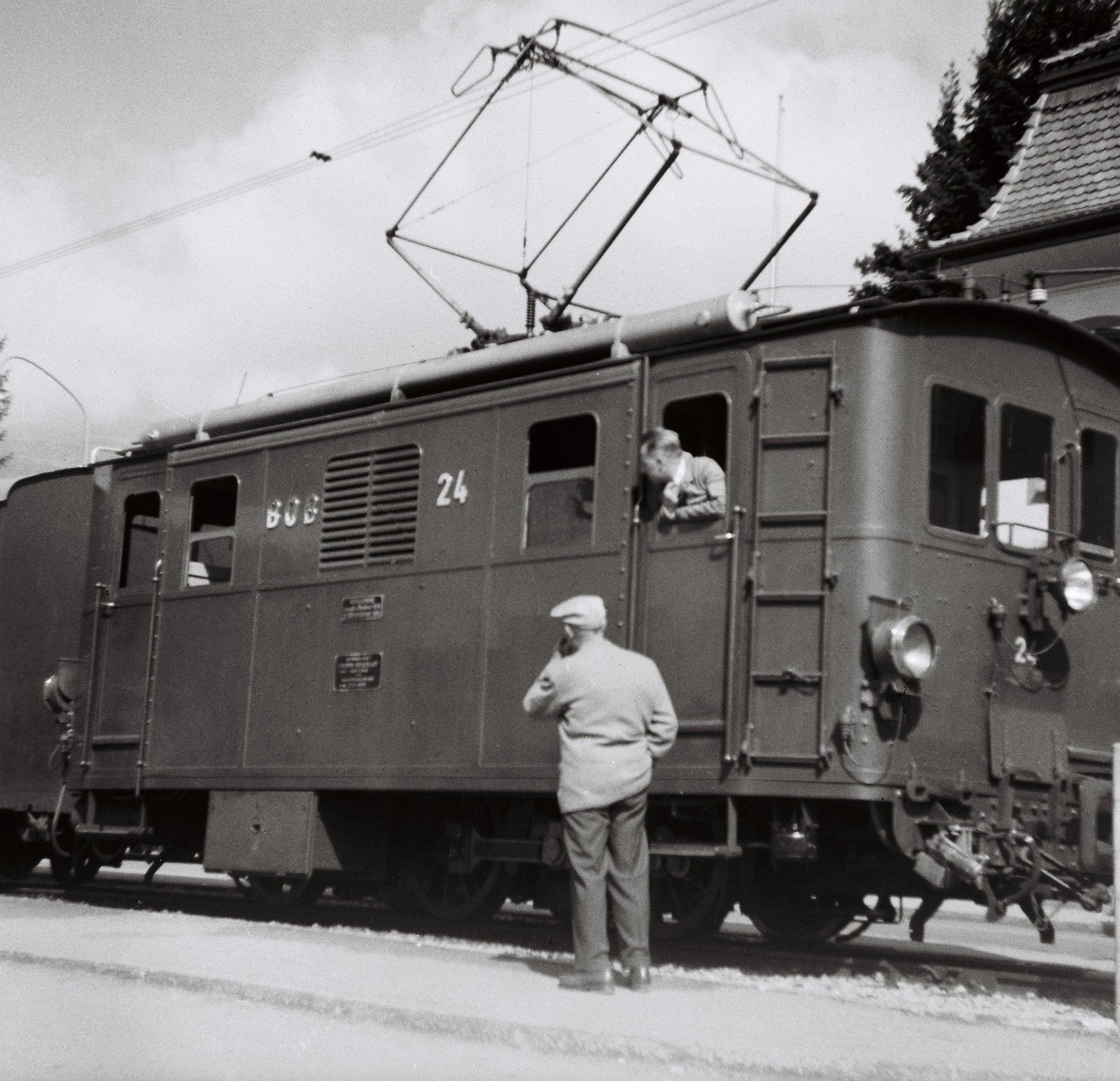 I believe this little locomotive bearing the number 24 and the letters B O B belonged to the Bernese Oberland System Railway but I need to be corrected if need be, it was a long time ago! Captured somewhere around the Grindelwald area of Switzerland in 1957. Camera: 2 1/4" Square Simple Box. Film: 120.